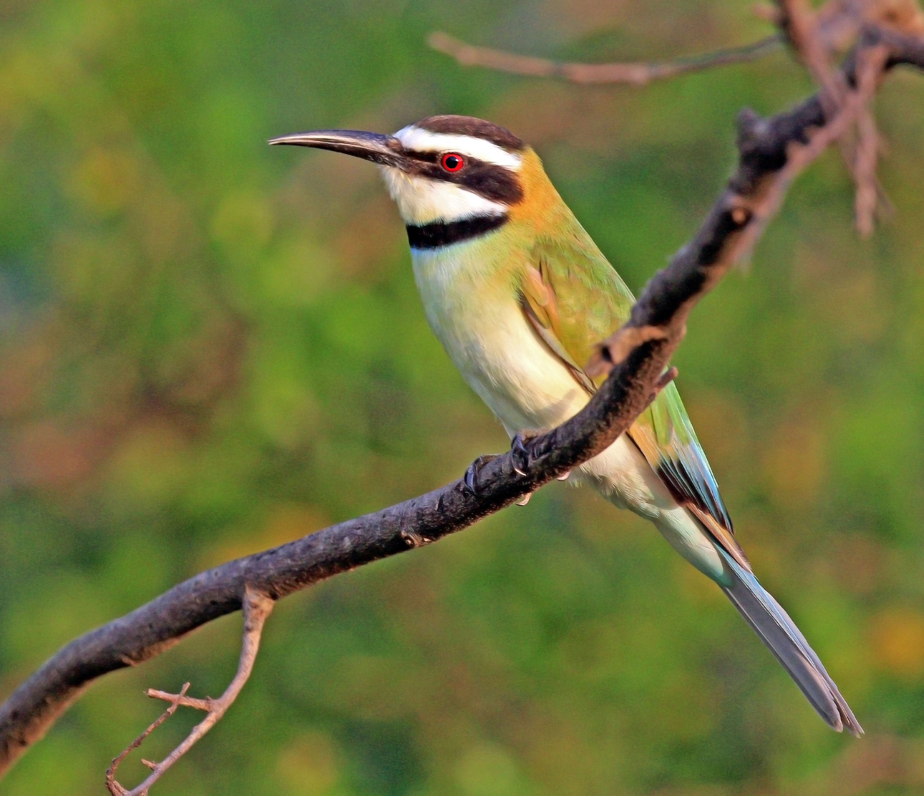 White-throated bee-eater (Merops albicollis) female, Ishasha, Queen Elizabeth National Park, Uganda